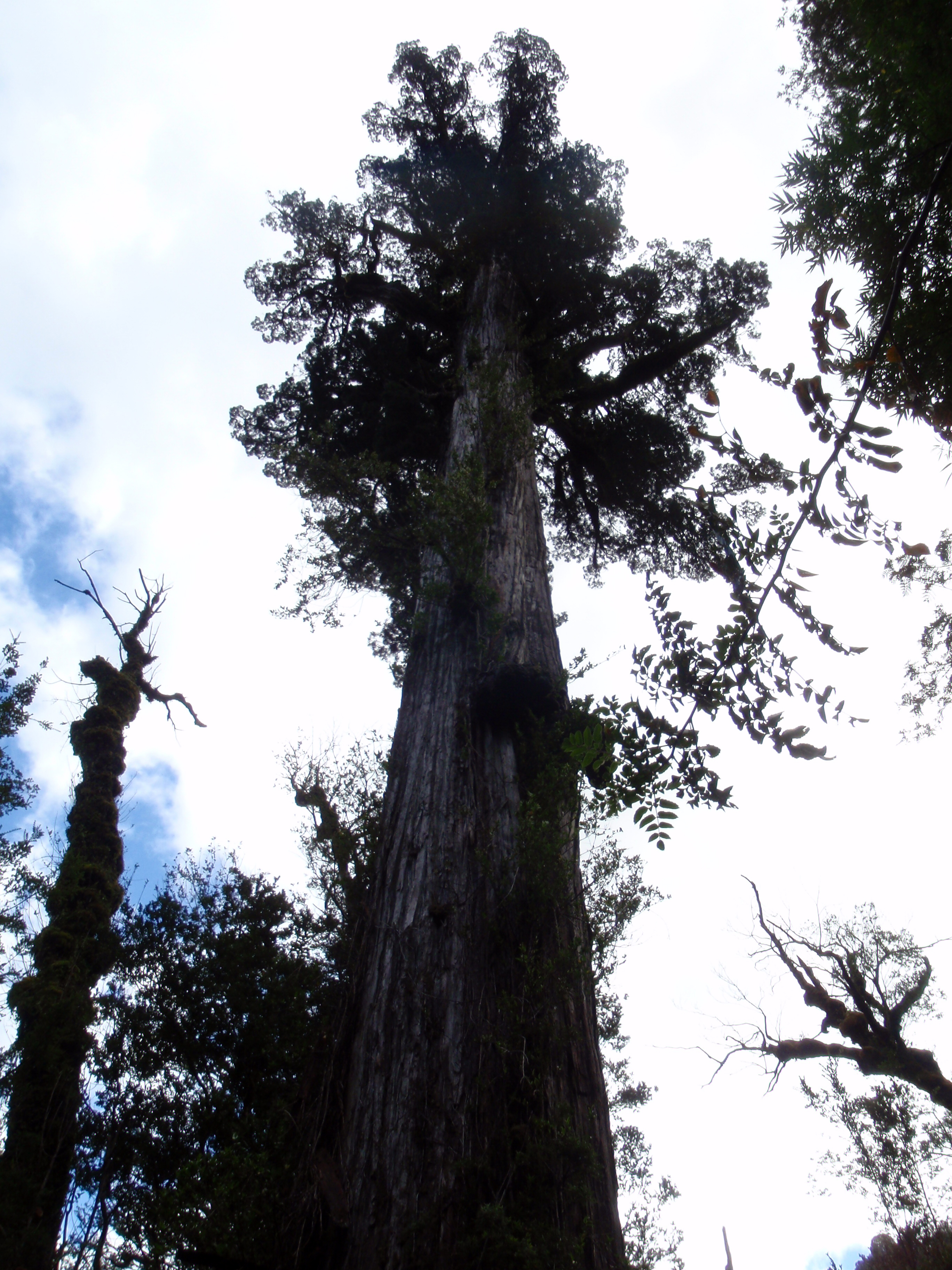 An Alerce tree in Alerce Andino National Park in southern Chile.